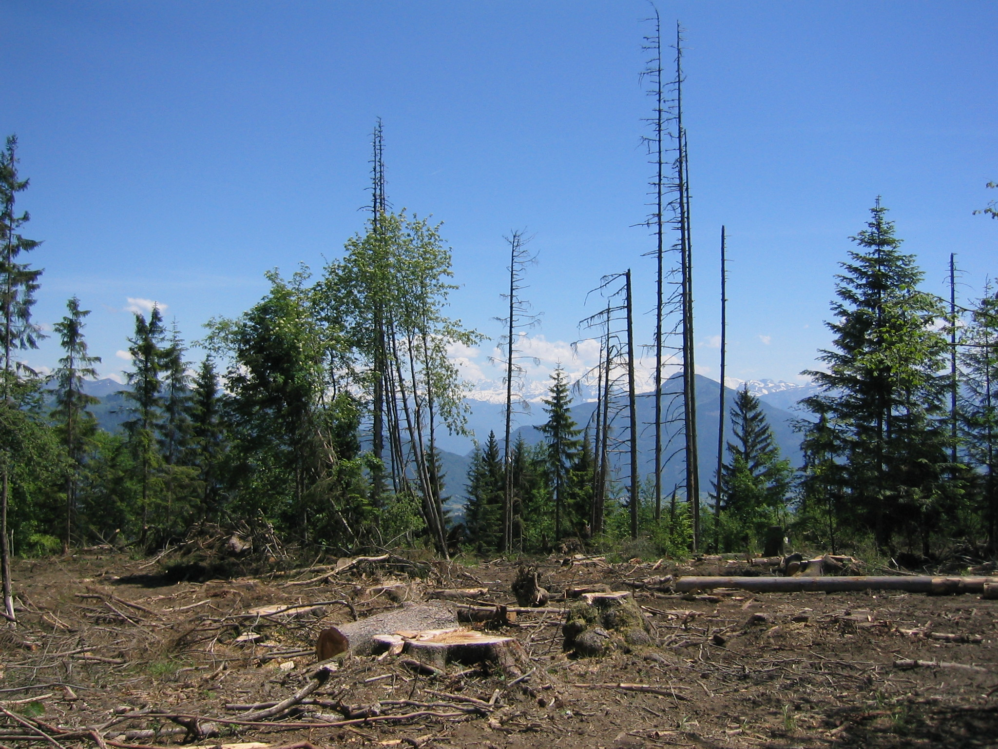 Logging (Haute-Savoie, France)